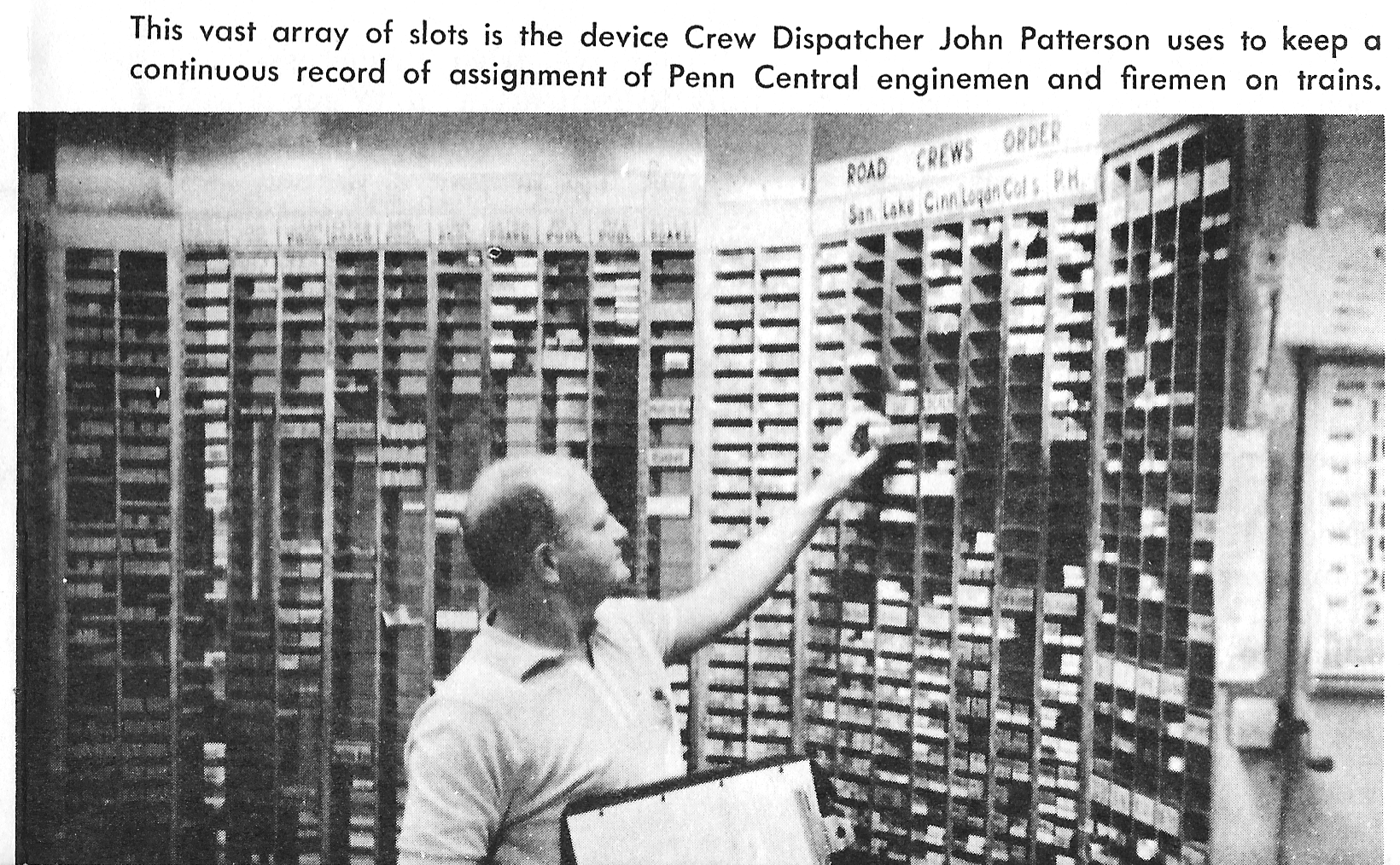 Penn Central Southern Region (Columbus Division) Crew Dispatcher John Patterson is in his office at Hilliard Yard, Ohio keeping track of train crew assignments for the 60 crews a day passing thru this relief point.